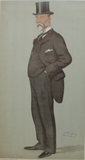 Caricature of Mr Samuel Whitbread MP. Caption read "Parliamentary Procedure".